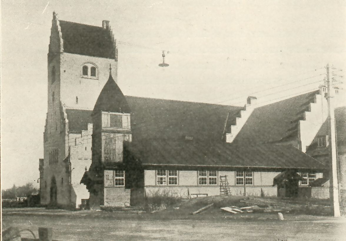 Filips Church, Copenhagen